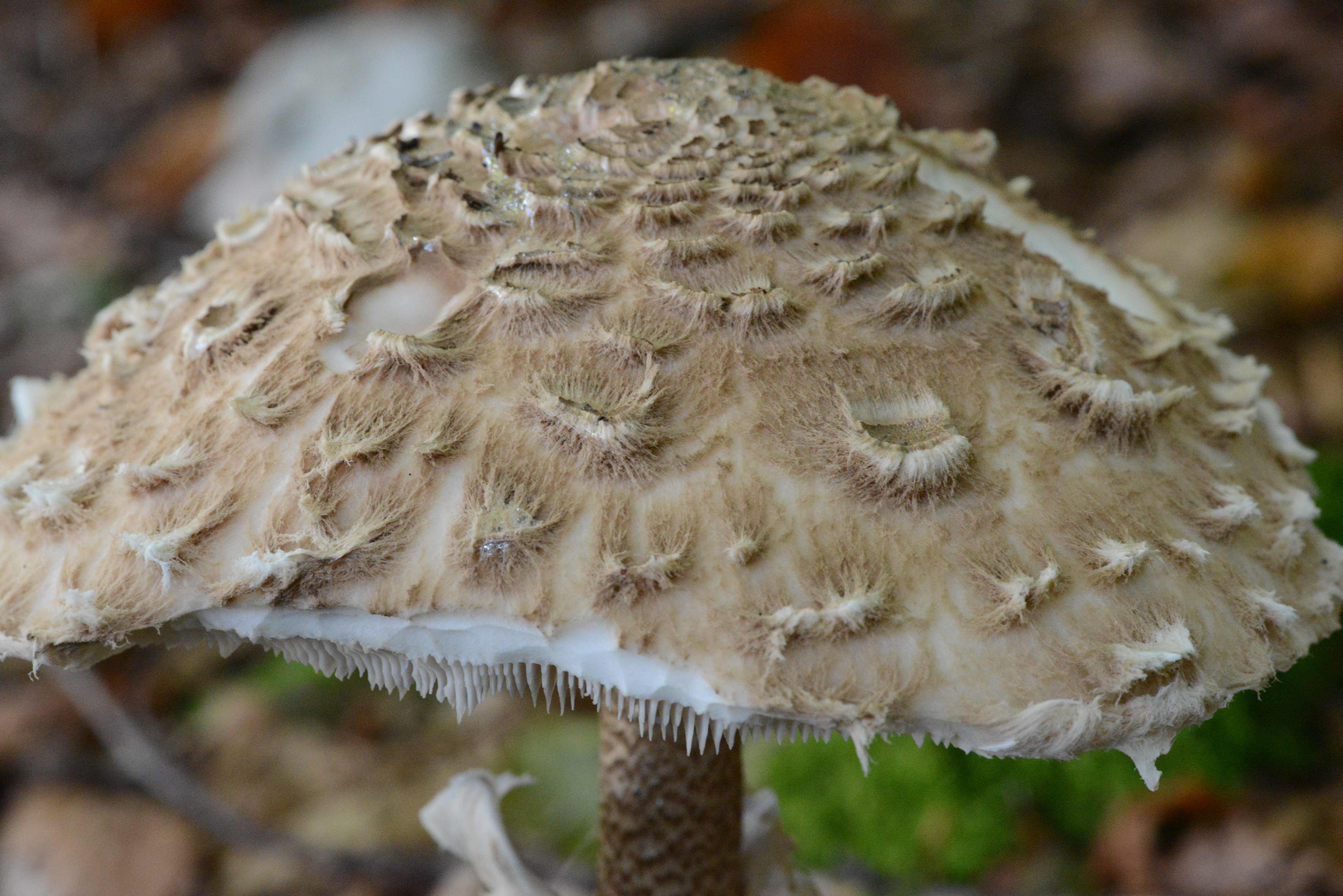 Bois des Râpes, Orvin, Switzerland